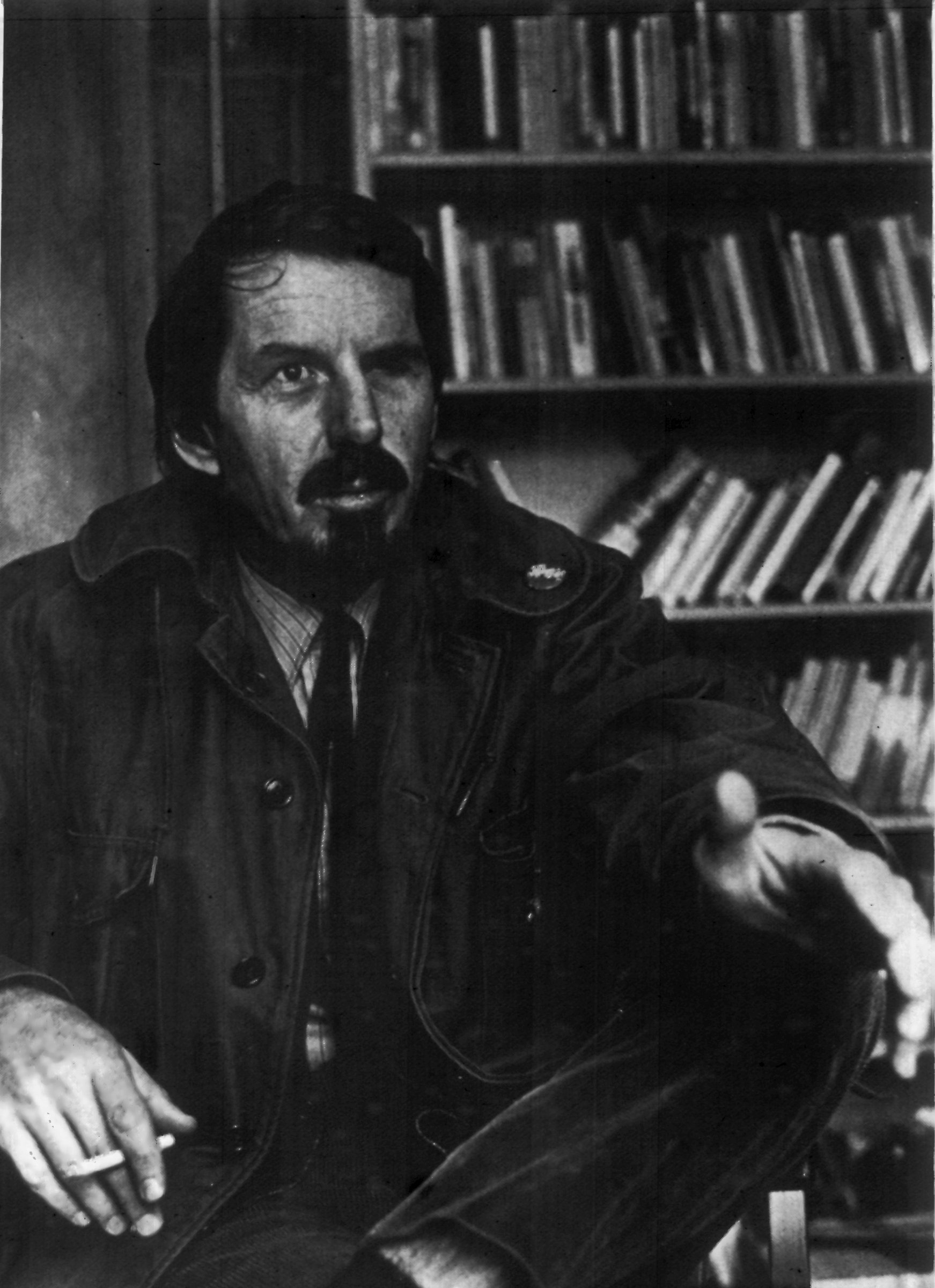 Robert Creeley, from the 1970 Buffalonian (University at Buffalo student yearbook)